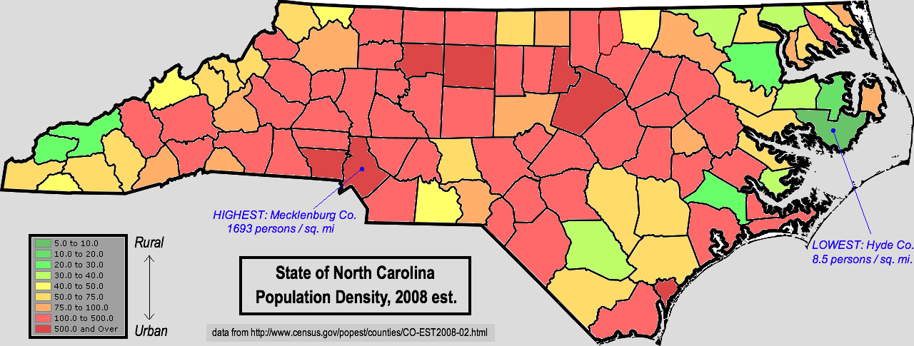 Map of North Carolina, using color shading to denote county-level population density using 2008 census estimates. Data retrieved from